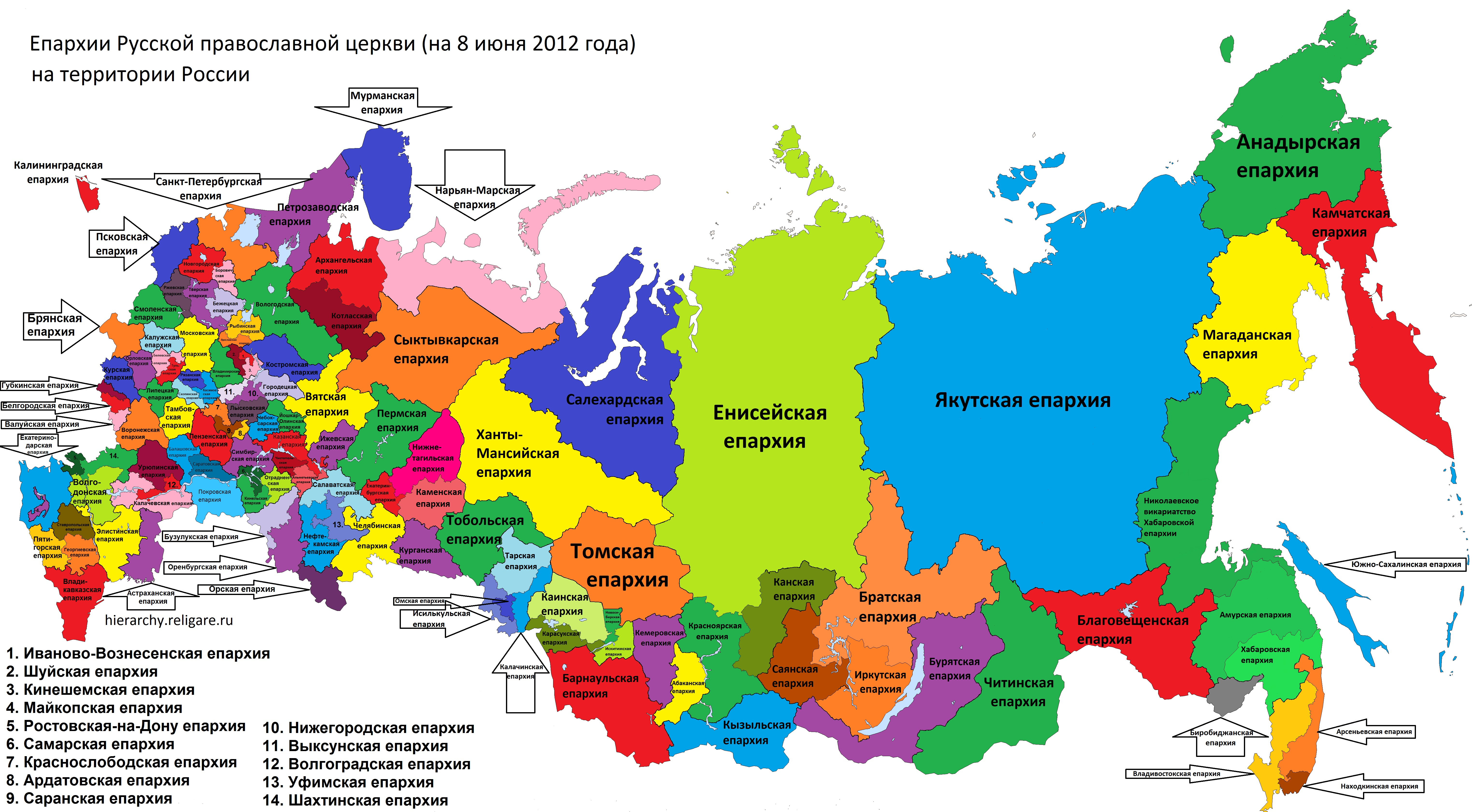 Territorial organization of the Russian Orthodox Church